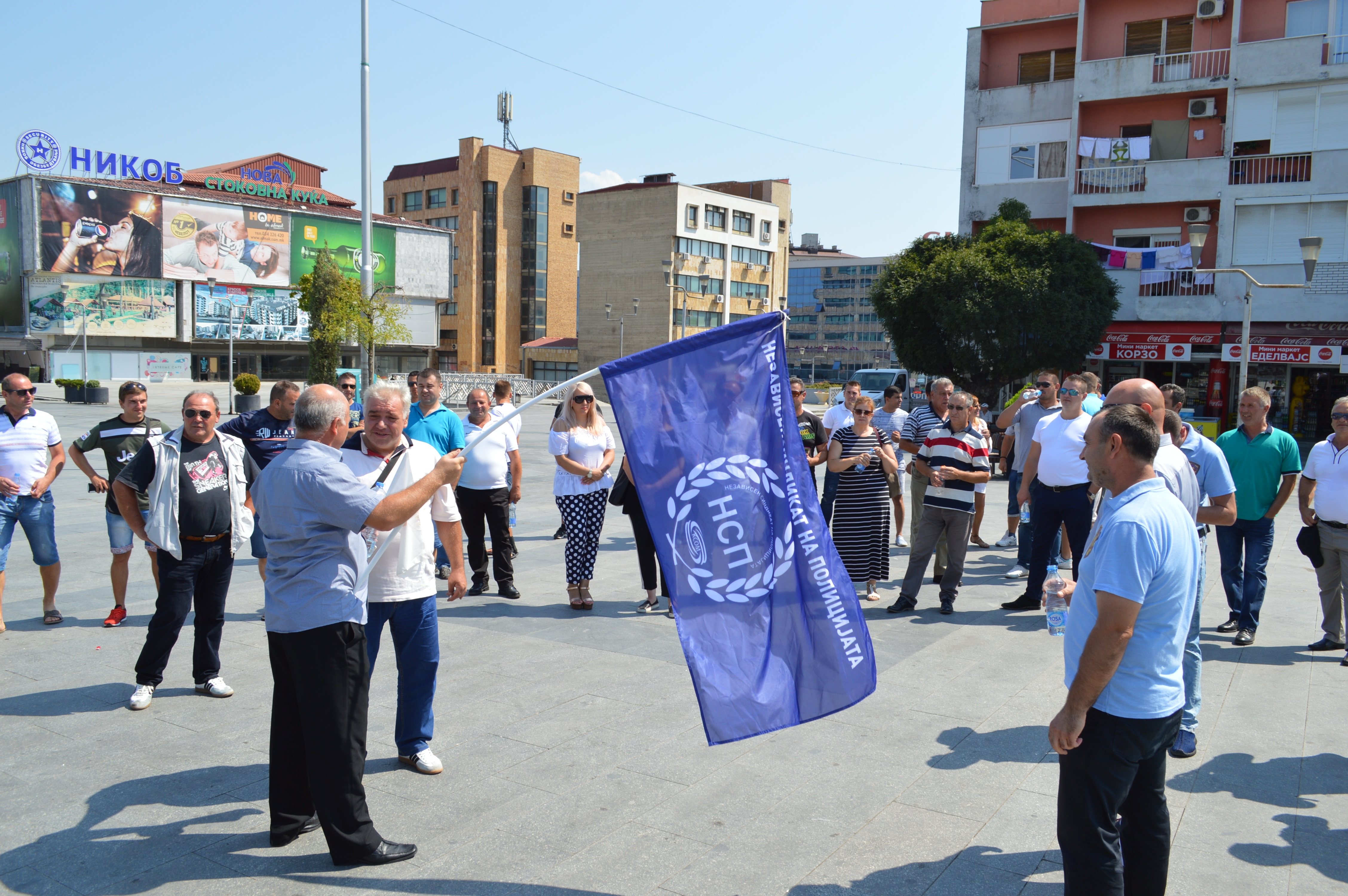 Members of the Independent Police Syndicate of the Republic of Macedonia gather around the flag of their organization during a protest at the city square in Strumica.